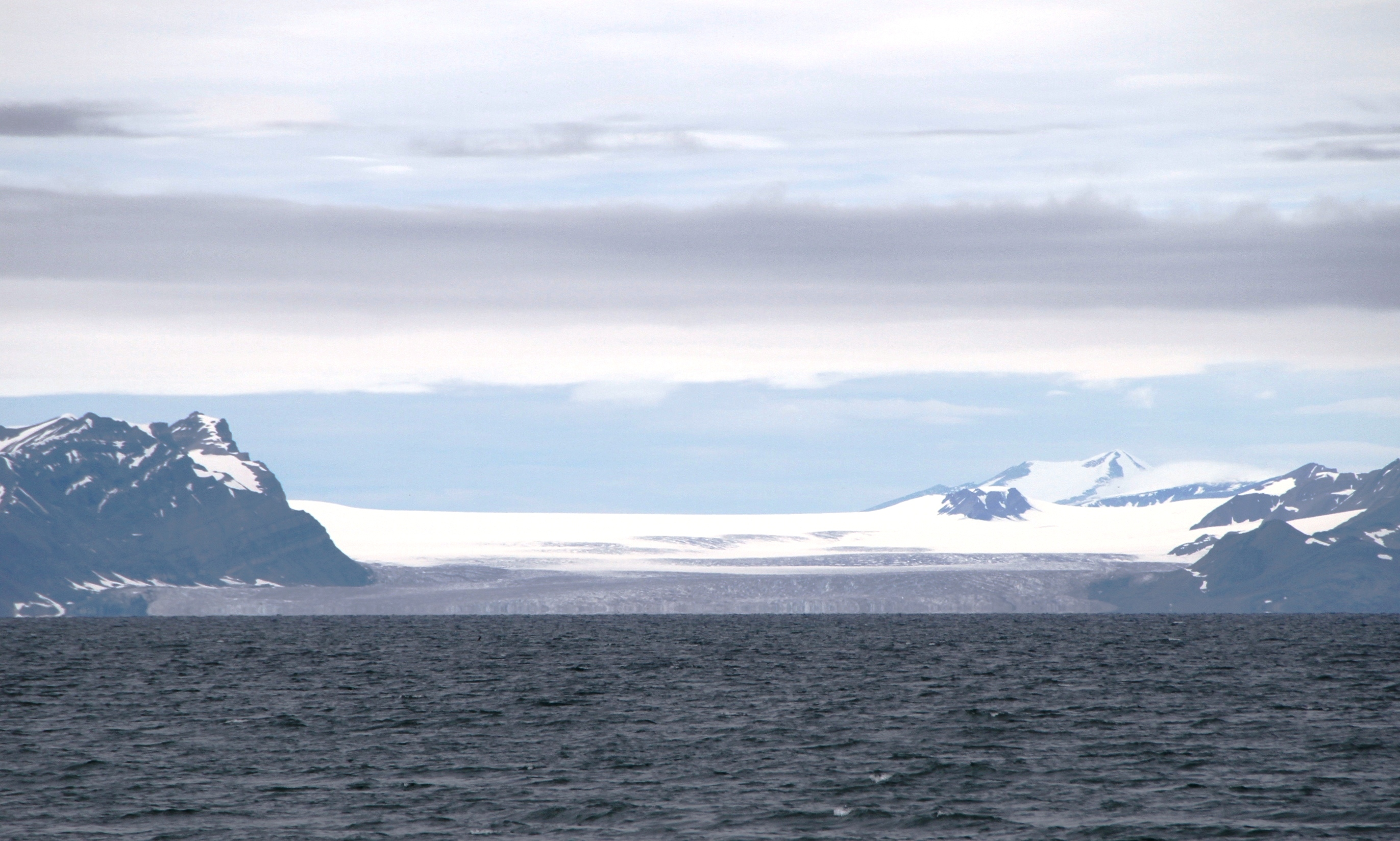 Image of southern parts of James I Land, from the Isfjorden bay, central Spitsbergen.